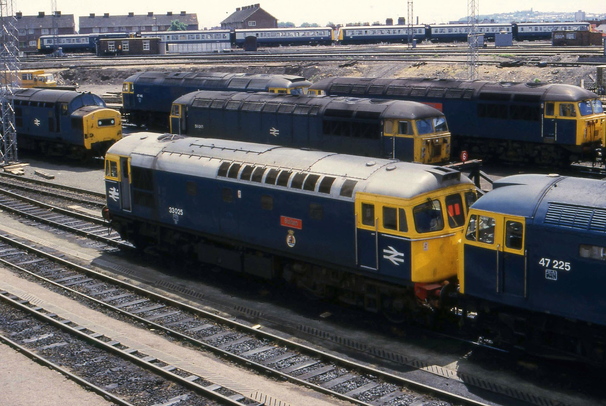 33025 with 47225, 47148, 56065 and others at Cardiff Canton depot